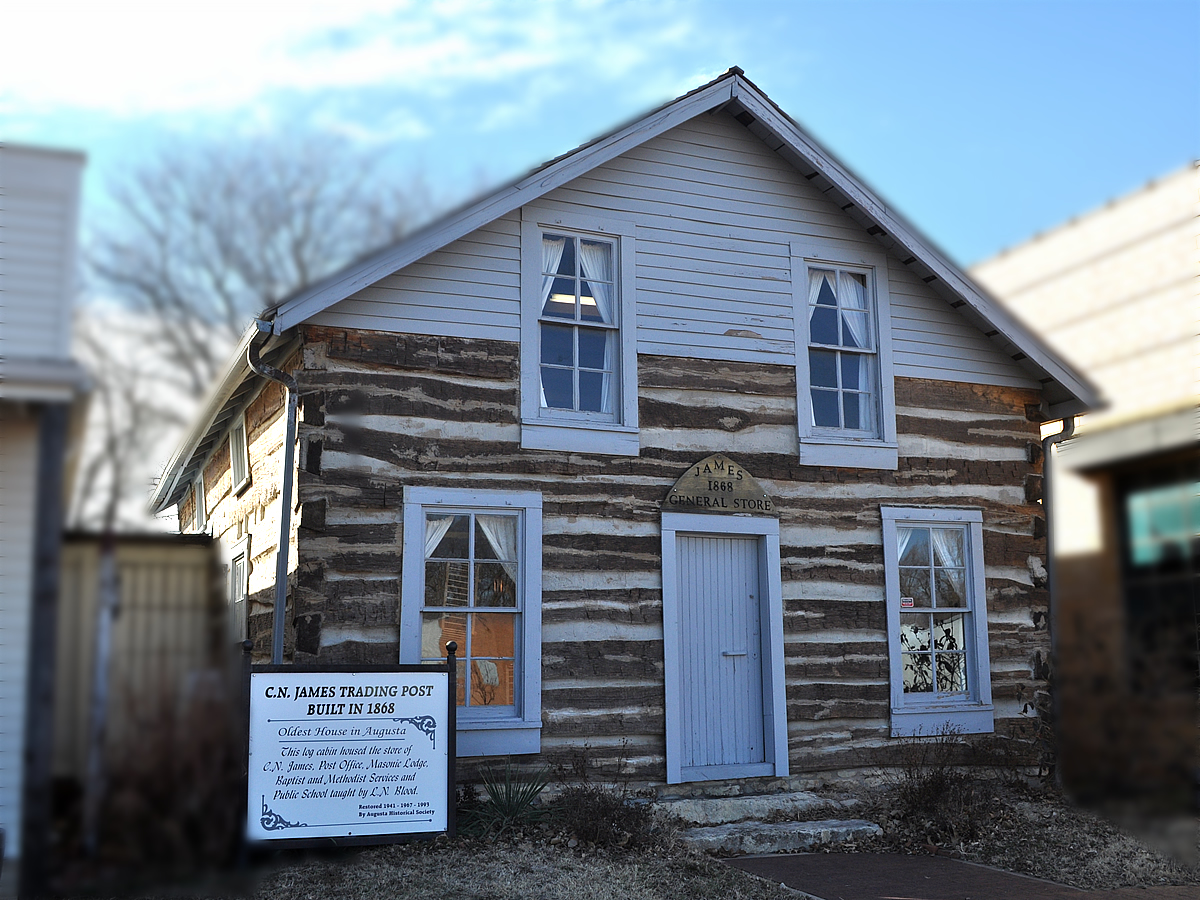 C.N. James Trading Post, Augusta, Kansas. Built 1868, the first building in Augusta, home to the post office, trading store, Masonic Lodge, and first Augusta school.